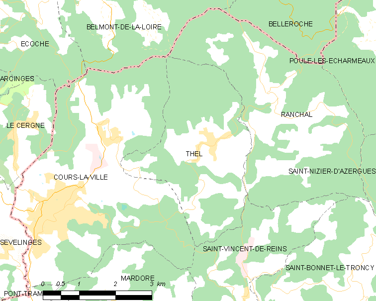 Map of French municipality